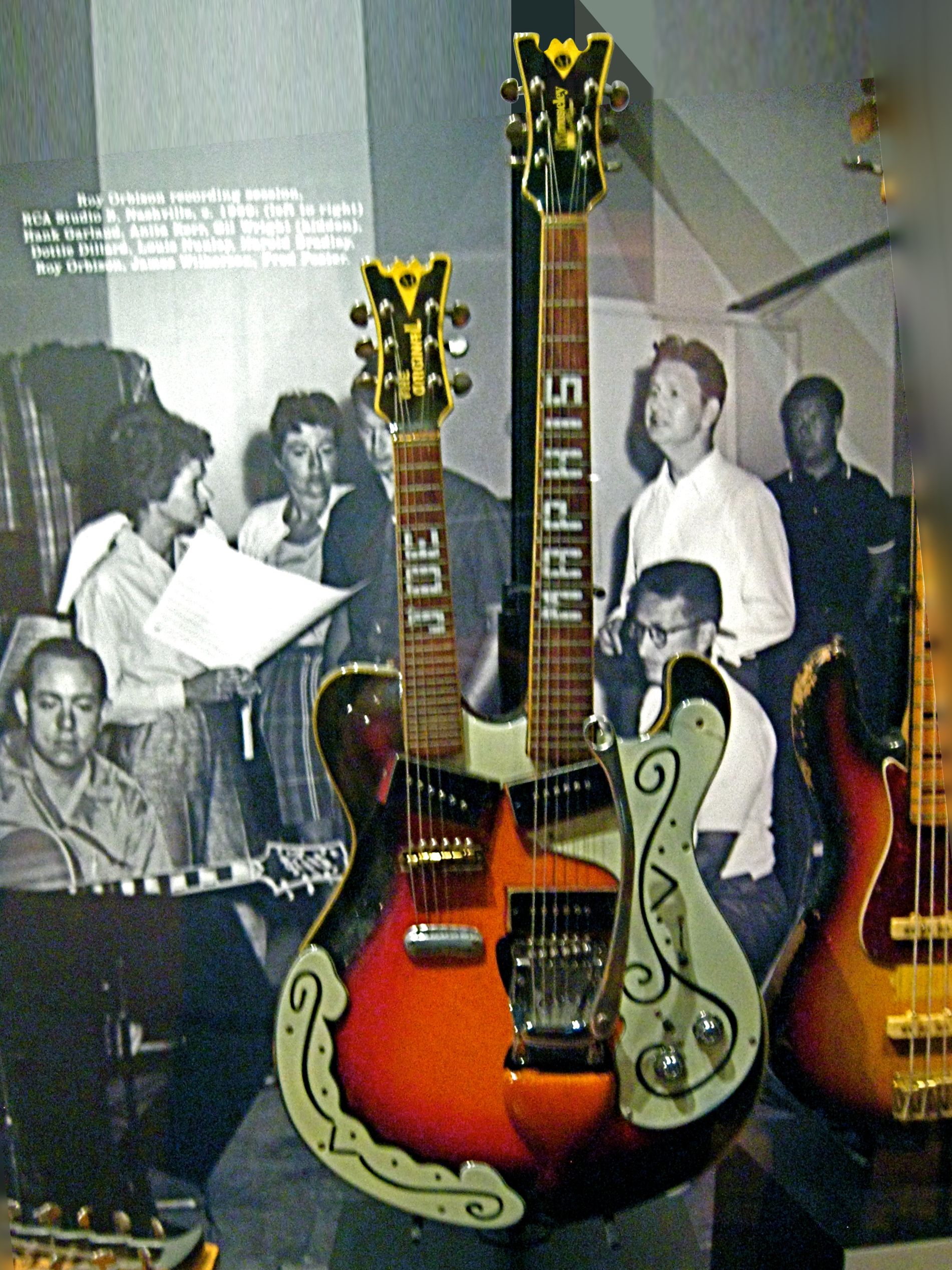 Joe Maphis's double-neck Mosrite guitar, specially built for him by Semie Moseley.